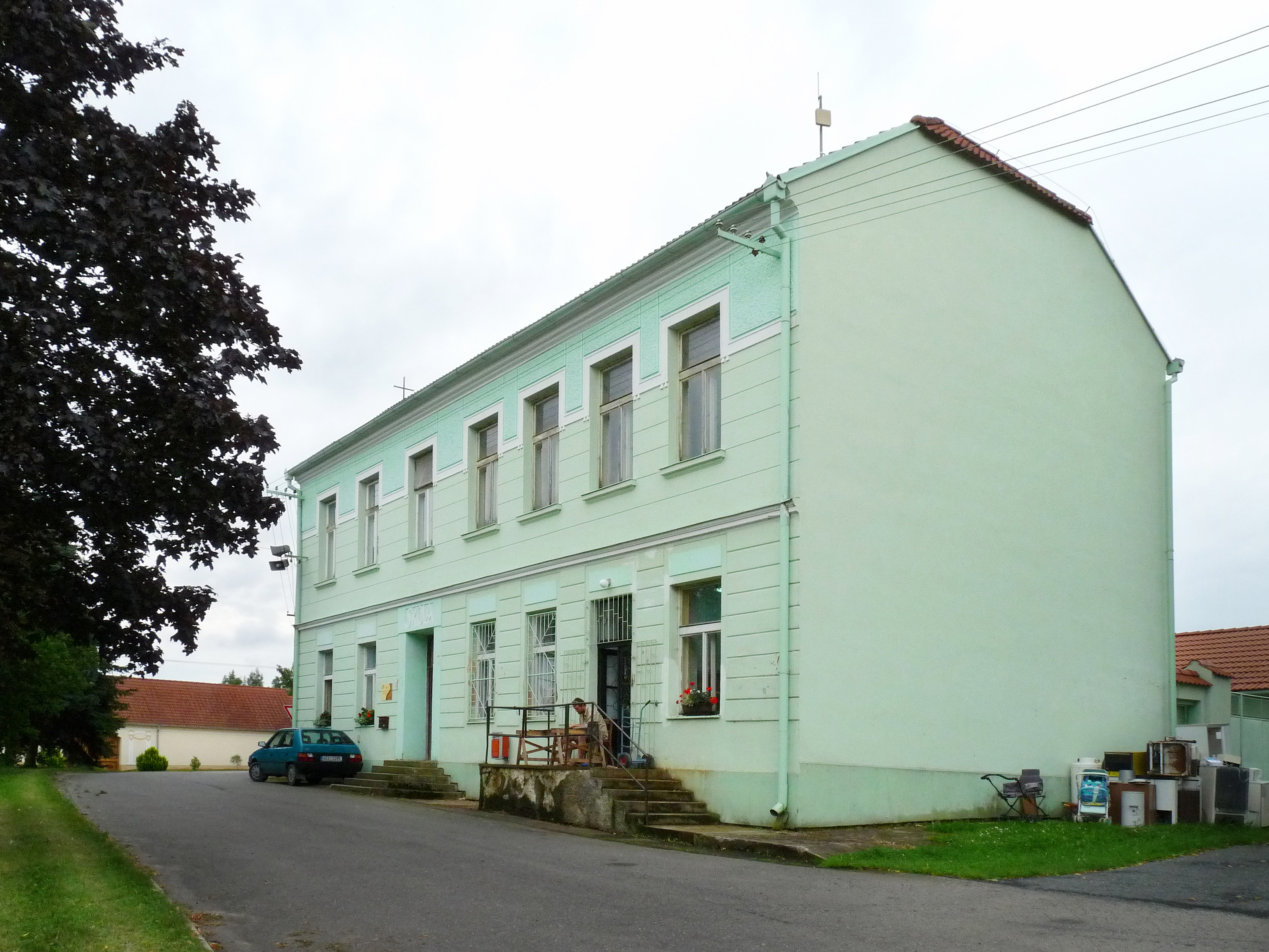 Building of former primary school in Hodětín, Tábor district, Czech Republic